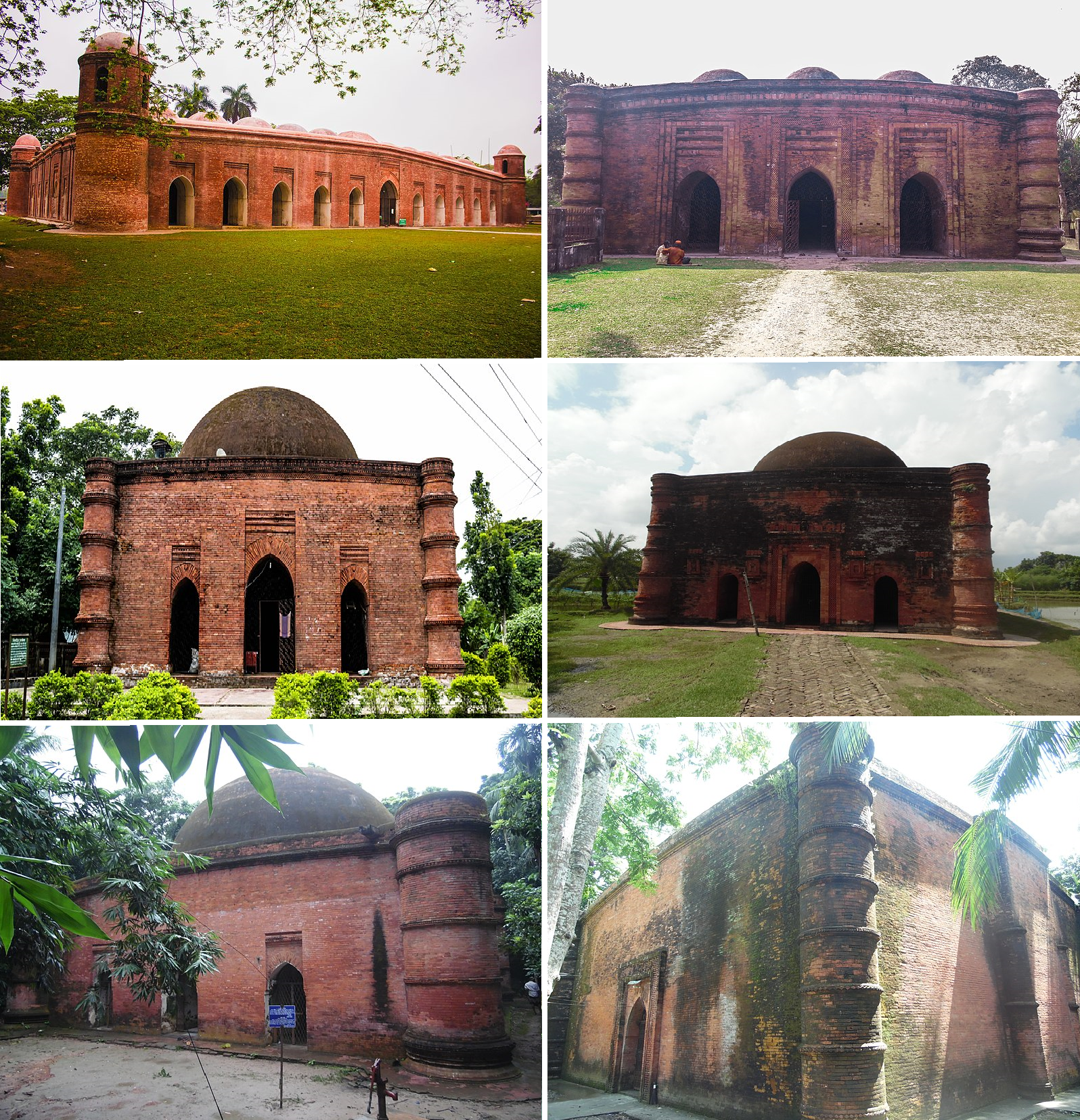 Montage of sites in the Mosque City of Bagerhat, a UNESCO World Heritage Site